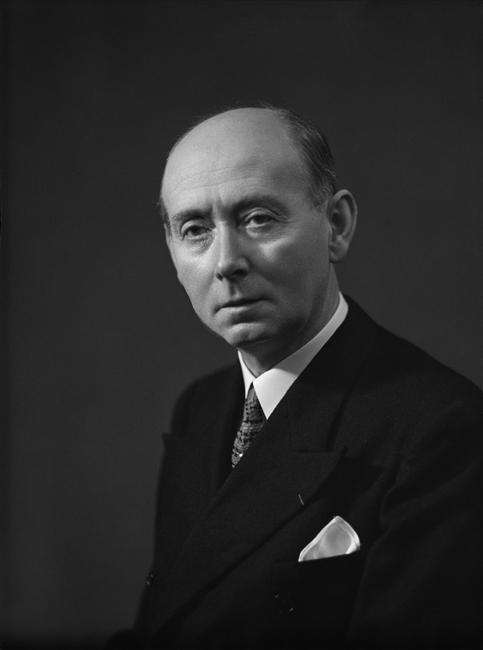 Studio photo